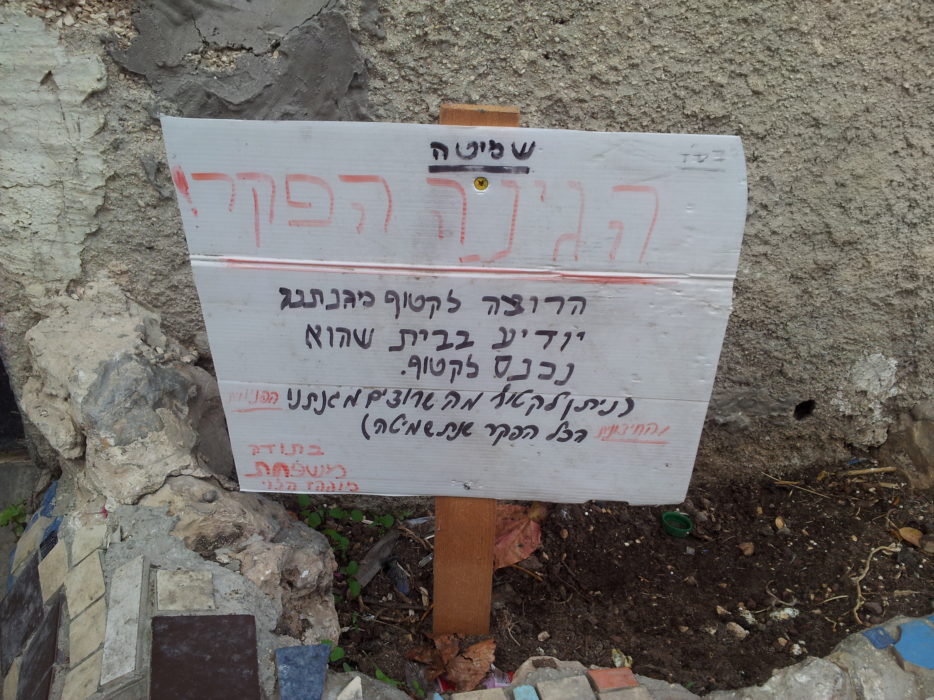 Hebrew sign in Jerusalem declaring the fruits in the garden as "Hefker" (anybody can collect them) for the Shmita year